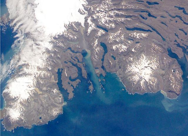 NASA Space Shuttle image of the southern part of the Kerguelen Islands, with Mont Ross at right. The Rallier du Baty Peninsula (lower left) forms the SW tip of Kerguelen Island. It contains two youthful subglacial eruptive centers, Mont St. Allouarn and Mont Henri Rallier du Baty. The Cook Glacier is at upper left. Top of image is north.